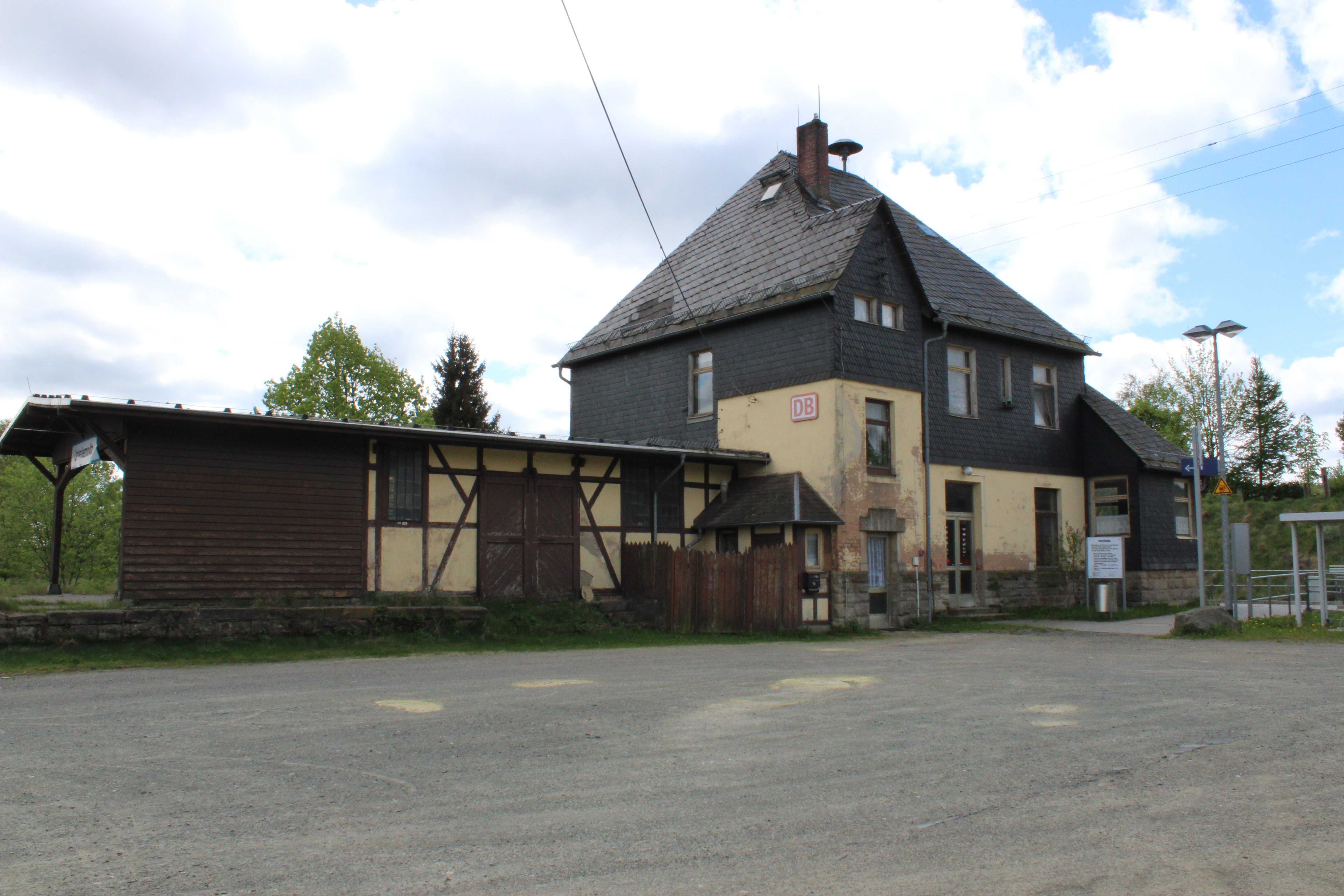 train station Unterlemnitz, station building